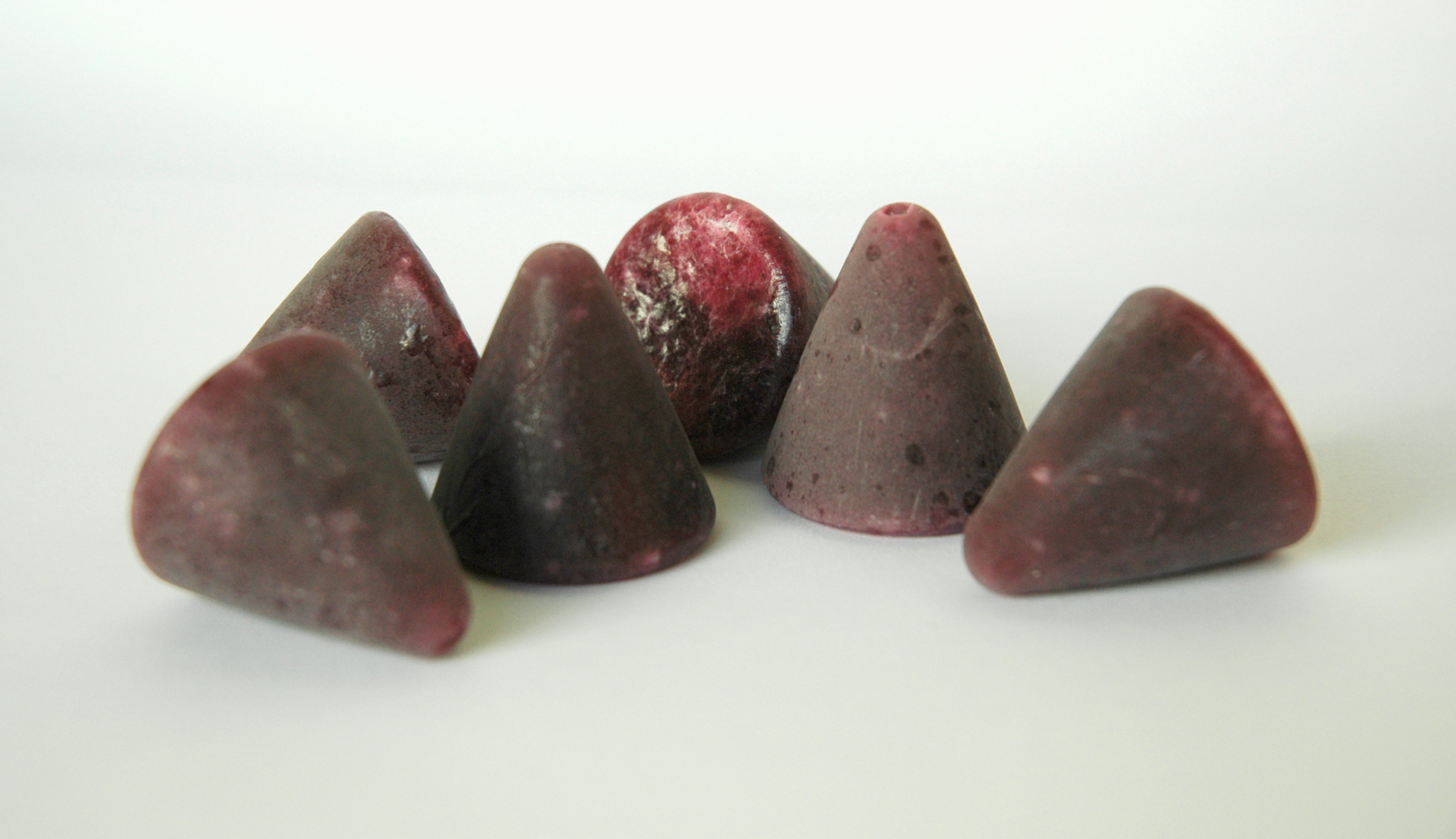 Six traditional cuberdons from Ghent.